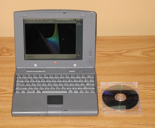 An Apple PowerBook Duo 2300c with standard-size CD jewel case, for size comparison. I took this picture.